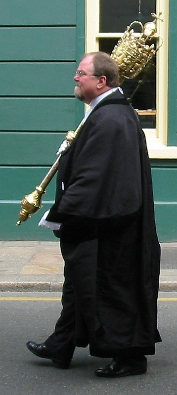 Jersey